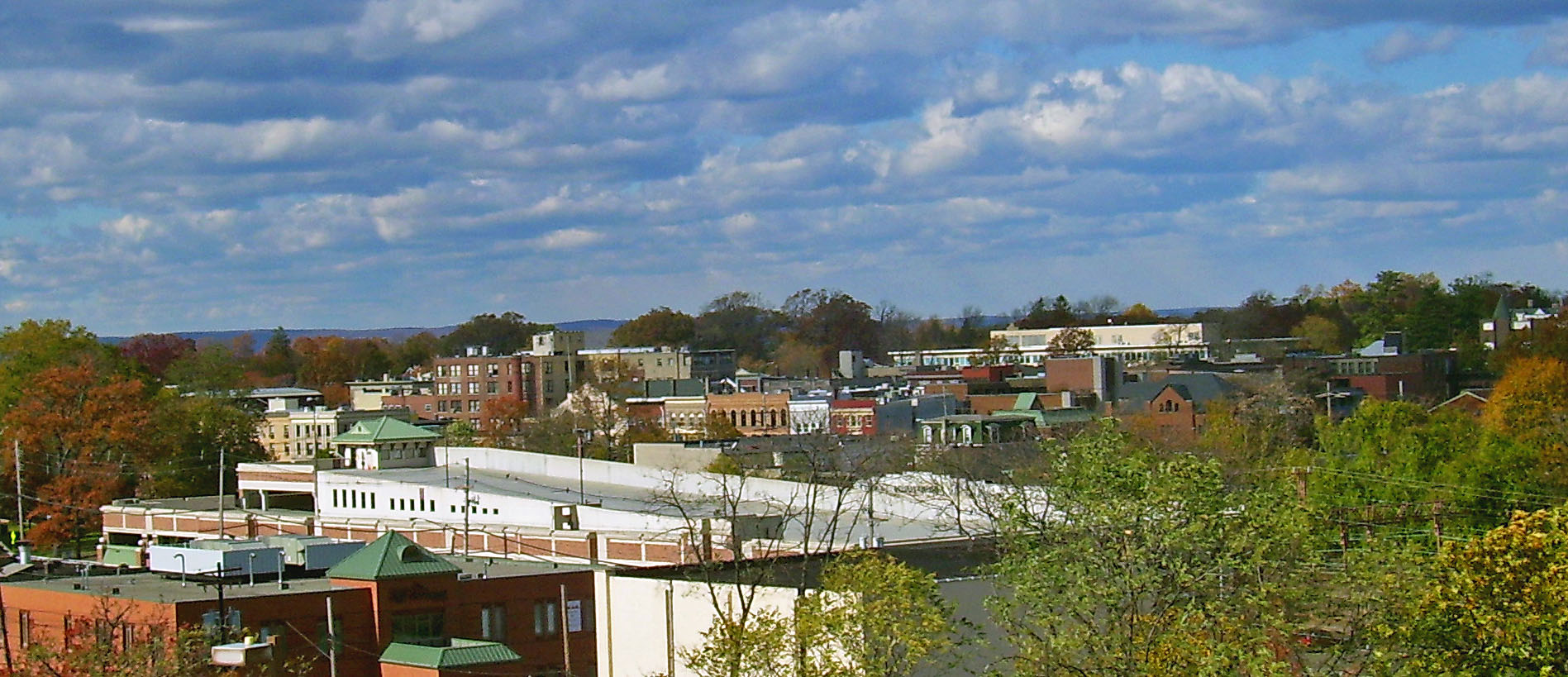 Photographed by Daniel Case from the top level of the Overlook Hospital parking garage 2006-10-29.